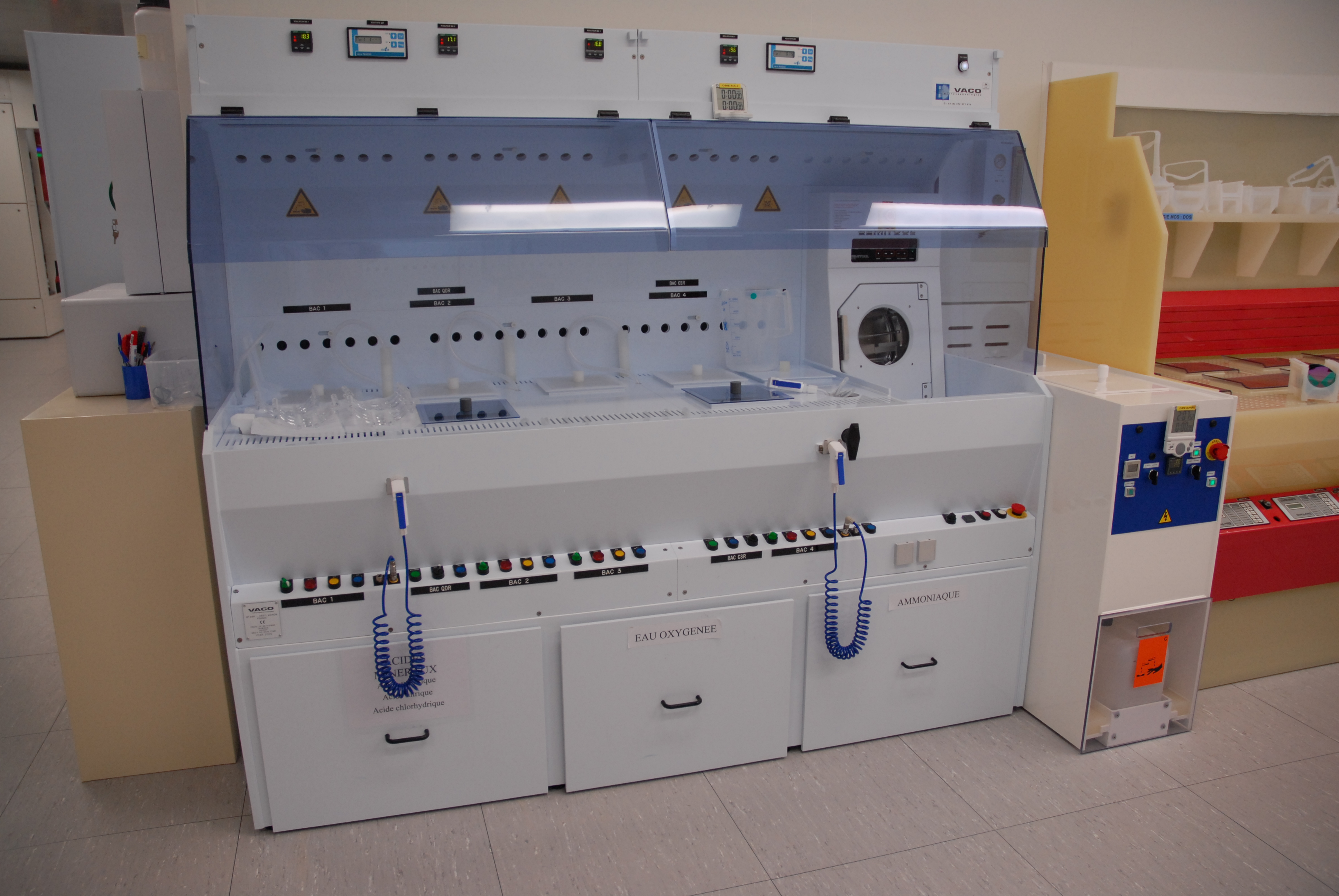 etching tanks used to perform Piranha, Hydrofluoric acid or RCA clean on 6-inch wafer batches at LAAS-CNRS technological facility in Toulouse, France.